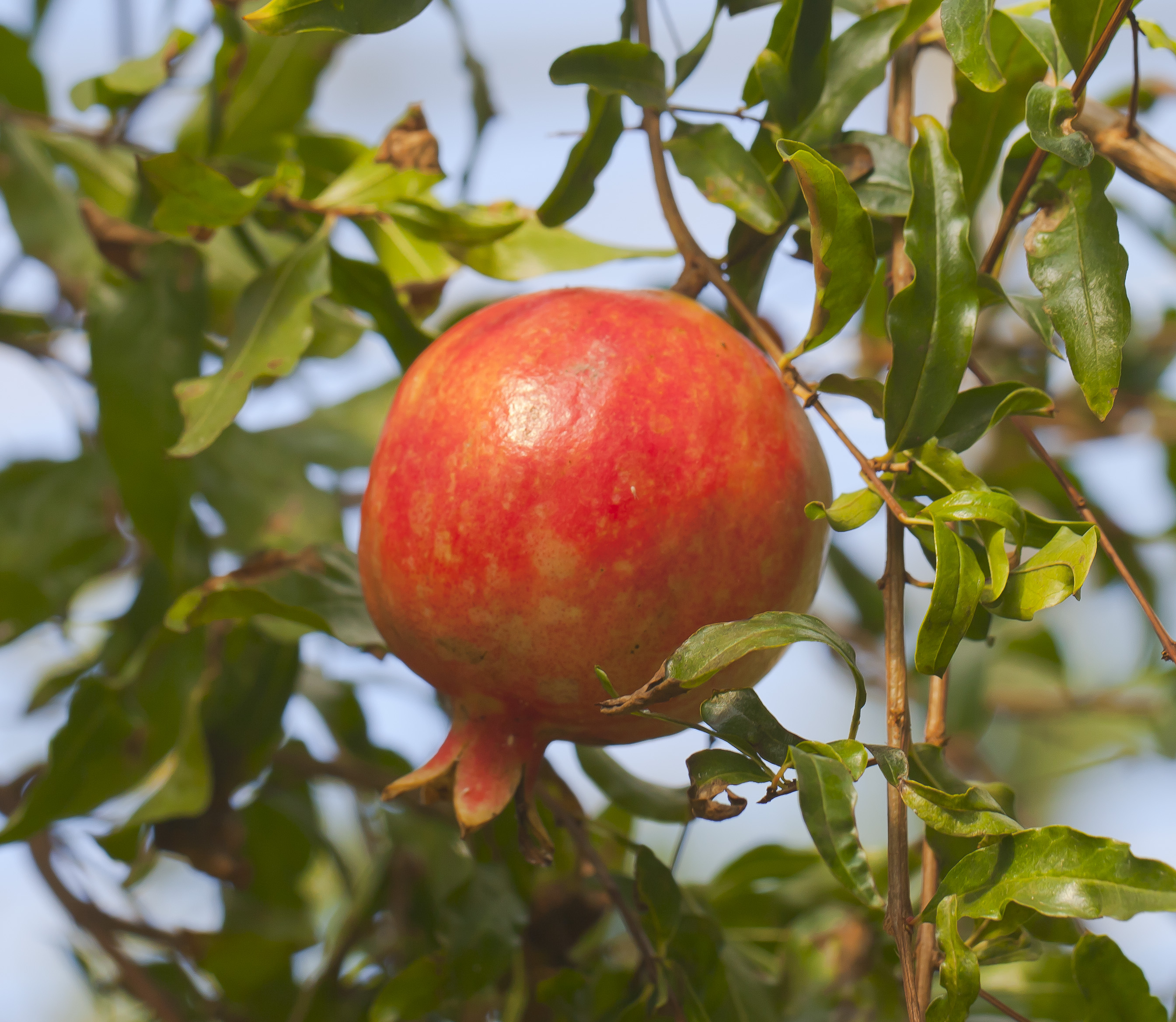 Pomegranate (Punica granatum), Botanic Conservatory, Fort Wayne, USA